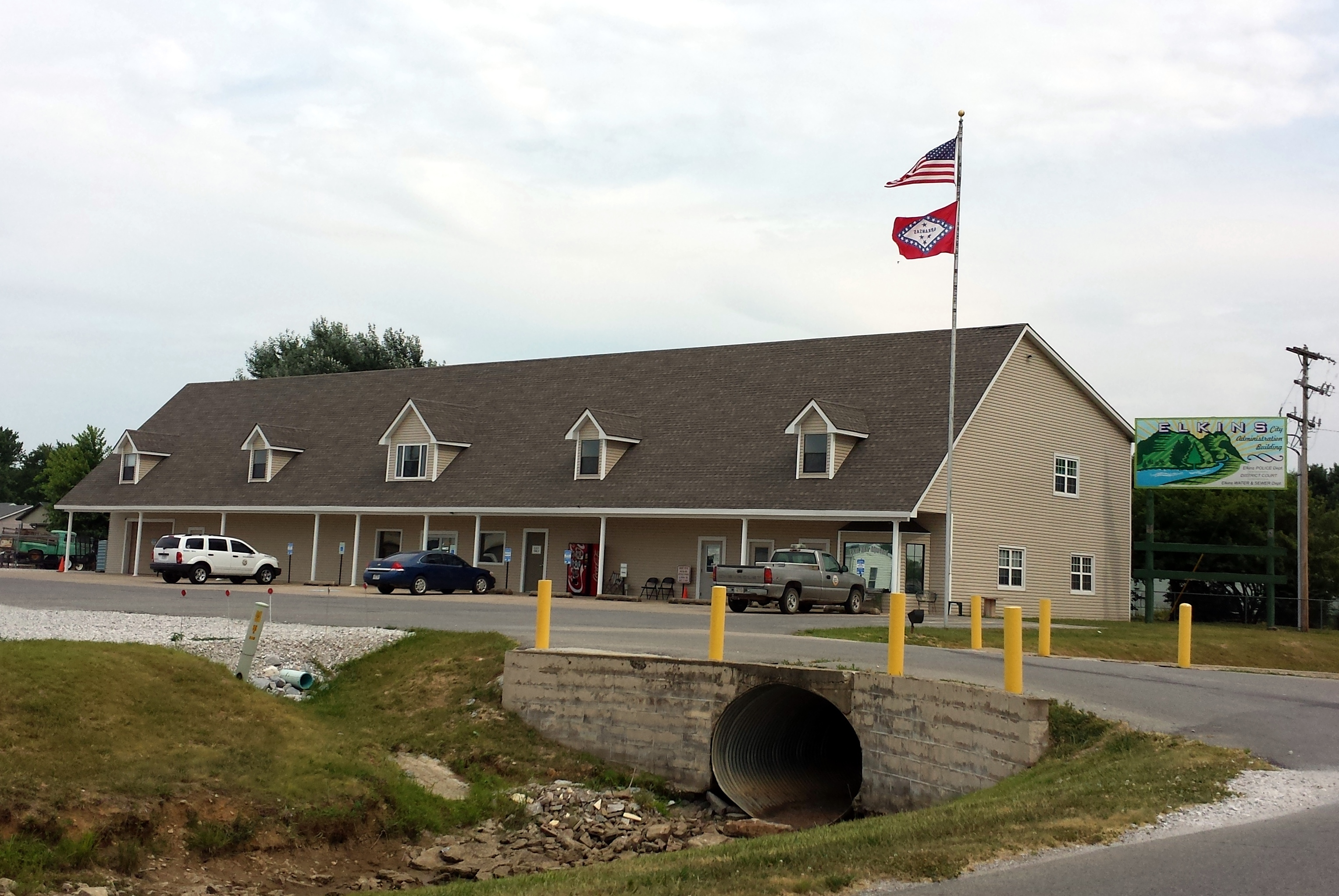 Town hall of Elkins Ark